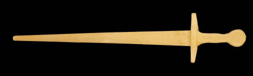 A wooden Arming Sword in ash by Historic Arts Carpentry